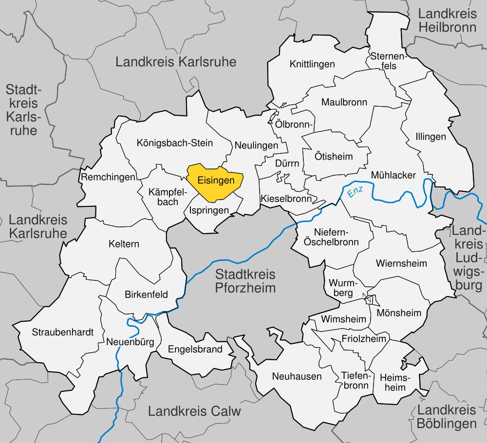 position of Eisingen within distict of Enzkreis, Baden-Württemberg, Germany